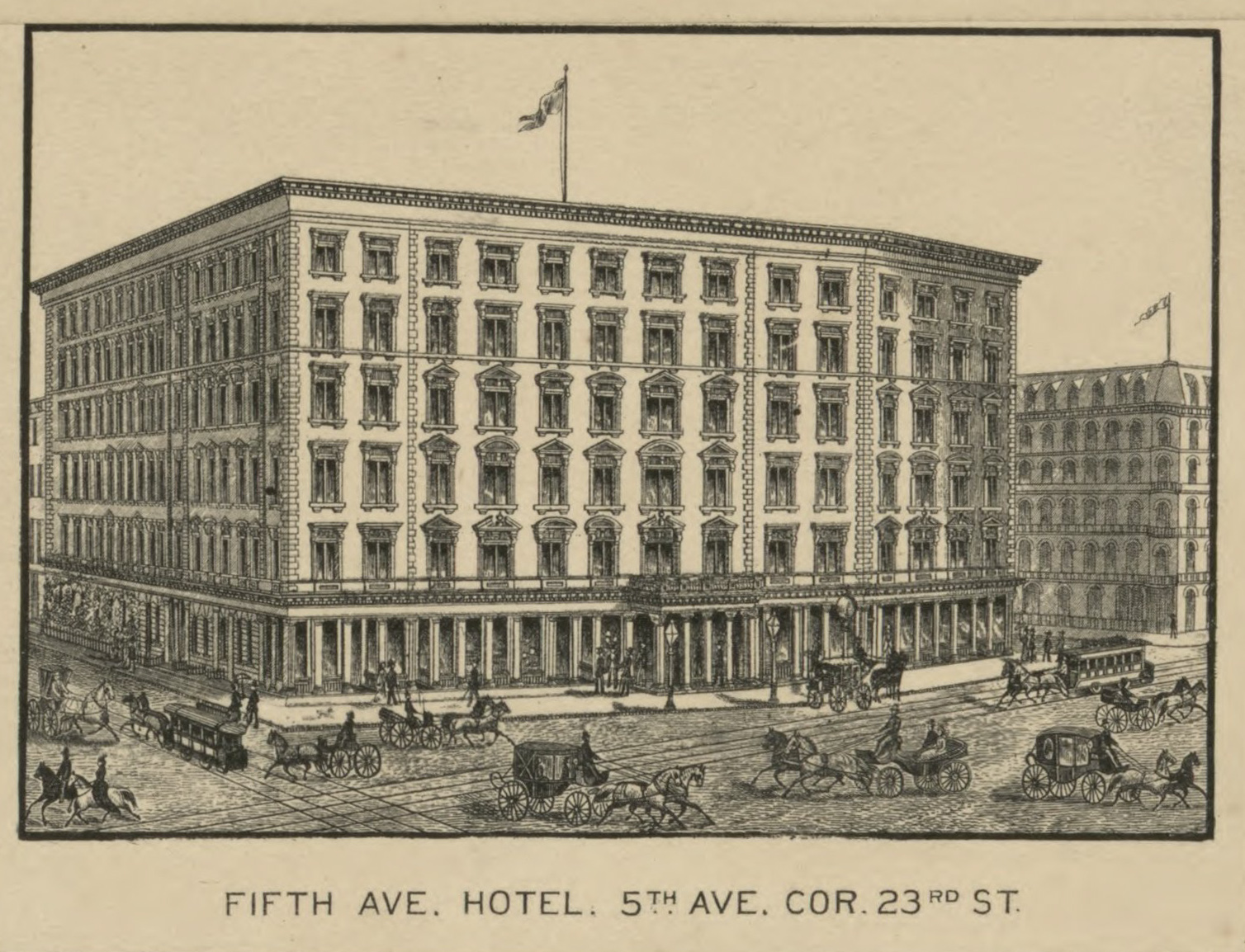 Detail from Taylor Map of New York, showing the Fifth Avenue Hotel